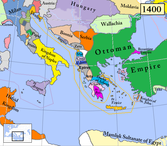 Republic of Venice its possessions and surrounding states in AD 1400. (Partially based on Euratlas of Europe, 1400.)